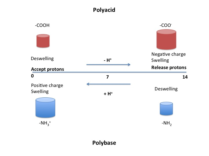 A summary of how polyacids and polybases respond to changes in pH